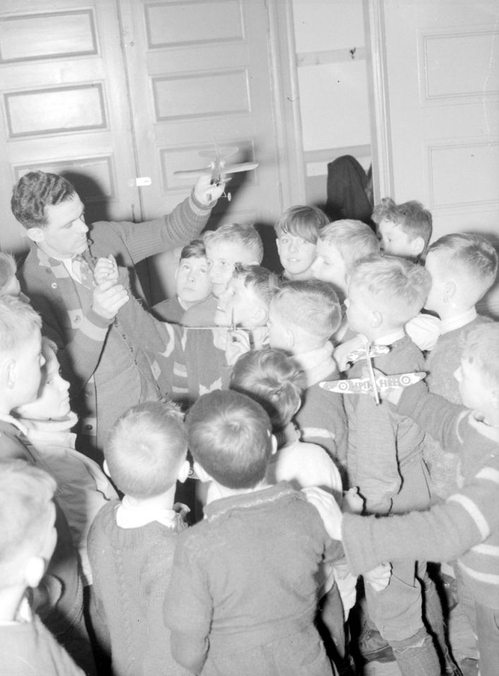 Boys the Kinsmen Club of Rosemont around a monitor that shows them a model airplane.